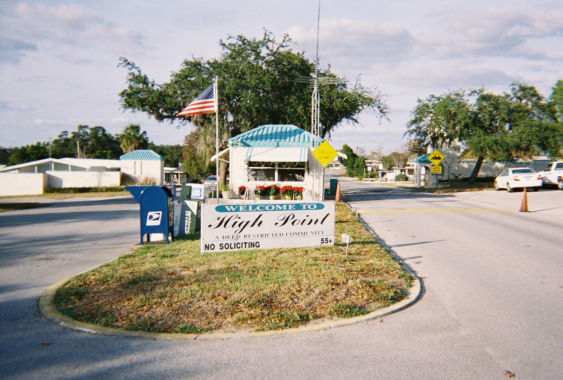 Second attempt at the front entrance gate of Gateway to High Point, Hernando County, Florida on High Point Boulevard, just north of Florida State Road 50.